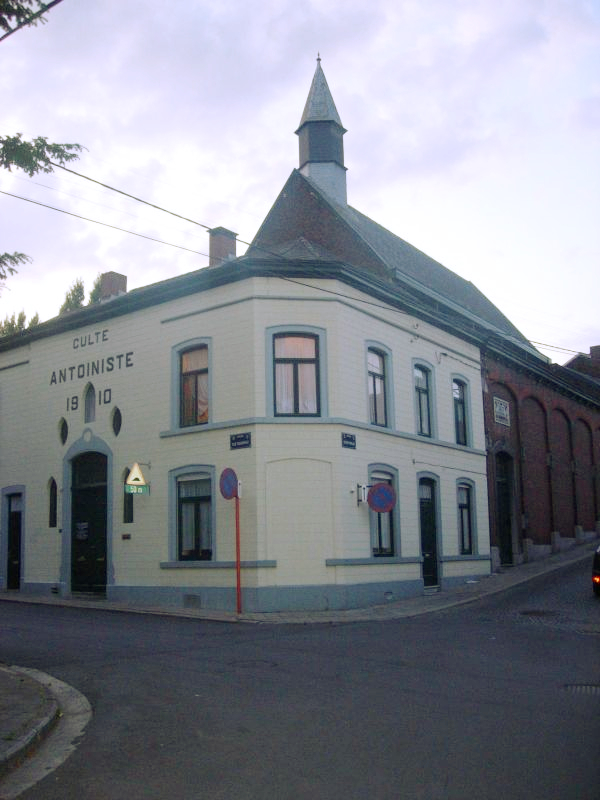 Antoinist Temple of Jemeppe-sur-Meuse (Belgium), centre of the Antoinism cult